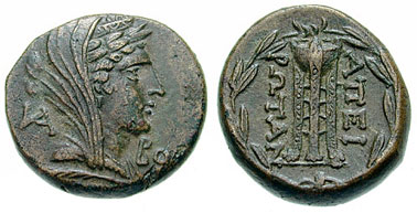 Epeiros, Epeirote Republic,234 BC ELaureate & veiled bust of Dione right, in stephane in hair; IA monogram behind, BO before / ΑΠΕΙΡΩΤΑΝ & tripod; within laurel wreath.